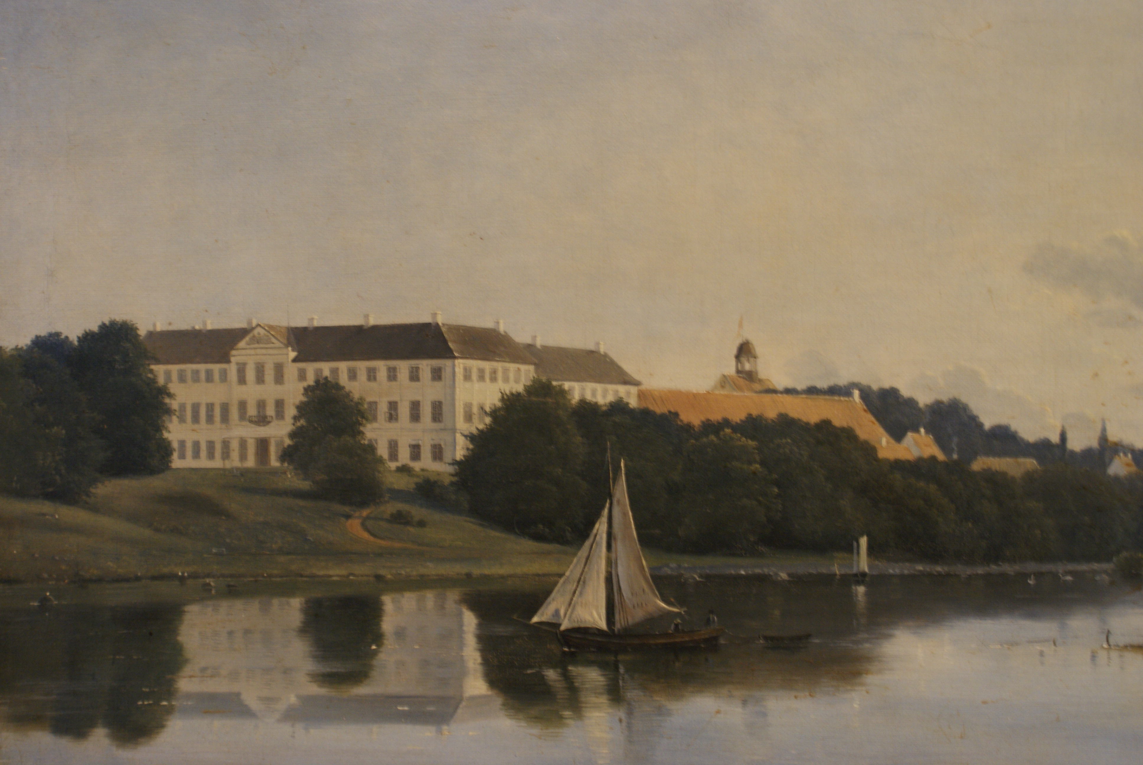 Augustenborg Palace in 1845, signed by F. M.